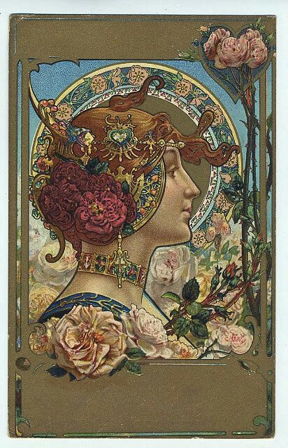 Poster